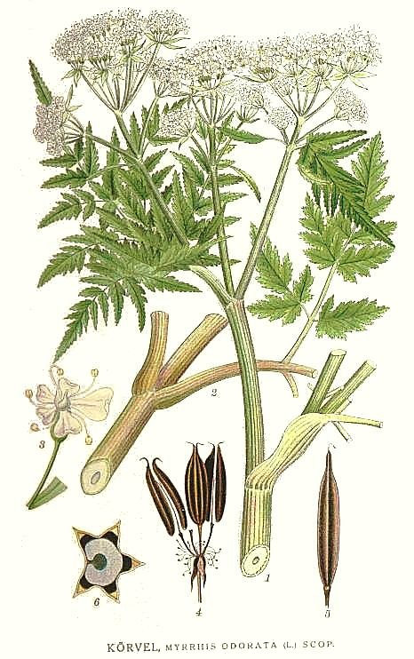 Original Description: Körvel, Myrrhis odorata (L.) Scop.